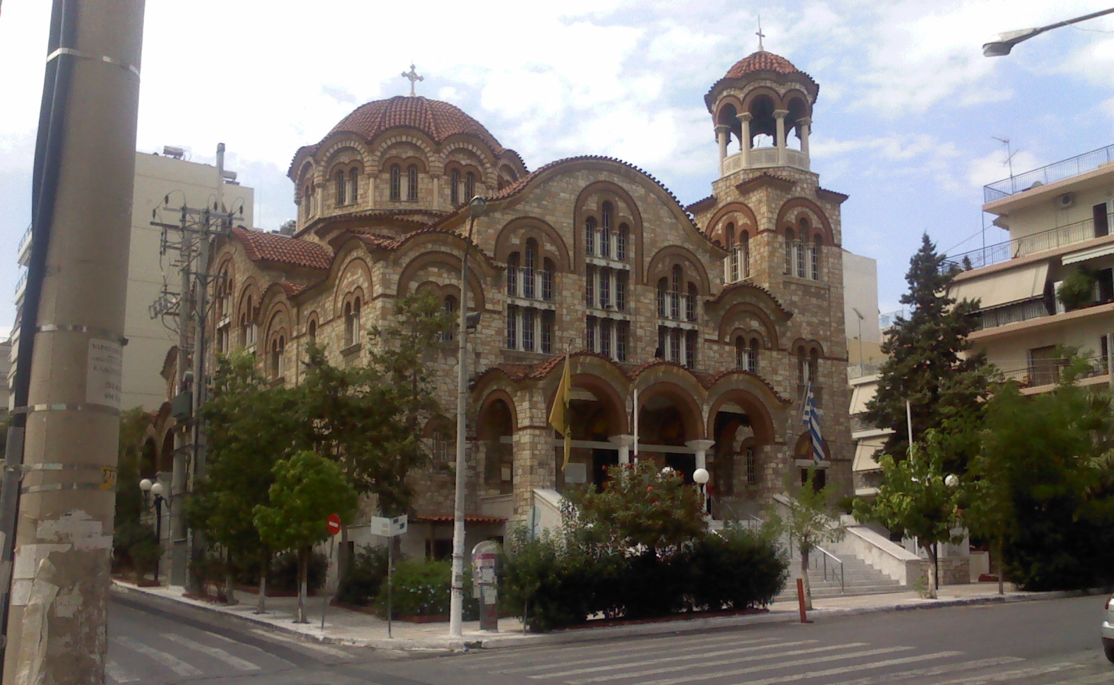 Agios Neilos Peiraia